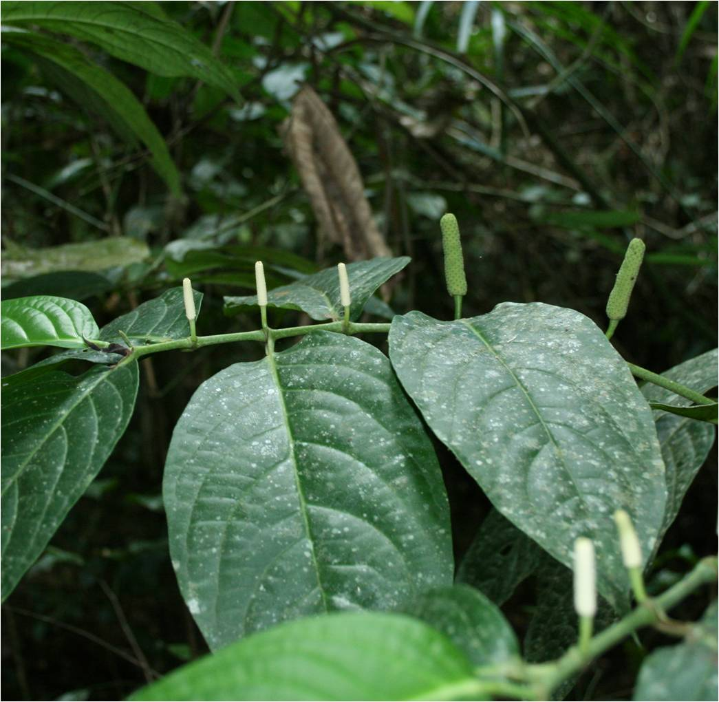 Wild Piper dilatatum on Rio Tabaro in Venezuelan Guayana